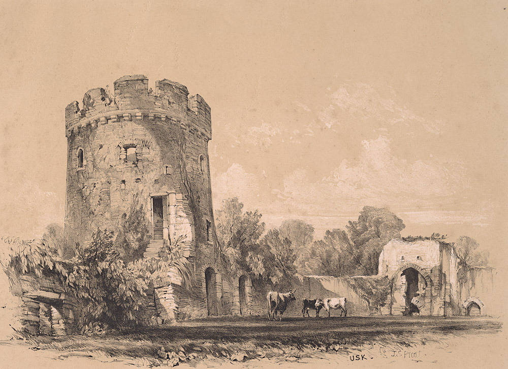 1 print : lithograph (tinted), b&w ; image size 270 x 365 mm., paper size 388 x 560 mm.